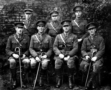 Group portrait of Lieutenant Colonel (Lt Col) Walter Oswald Watt, Officer Commanding of the 1st Wing, Australian Flying Corps (AFC) and his staff of officers. Back row, left to right: Lieutenant (Lt) Harold Luke Horner Chambers, Assistant/EO; Lt Reginald Ernest Marsden, Assistant/Adjutant; Second Lieutenant Arthur Christopher Wingrove Cooke, Assistant/EO (Wireless). Front row: Captain (Capt) James Brake, Gunnery Officer; Capt Robert Humphrey Browning MC, Adjutant; Lt Col Watt; Lt Royston Oliver Carr Matthews, EO (Wireless).